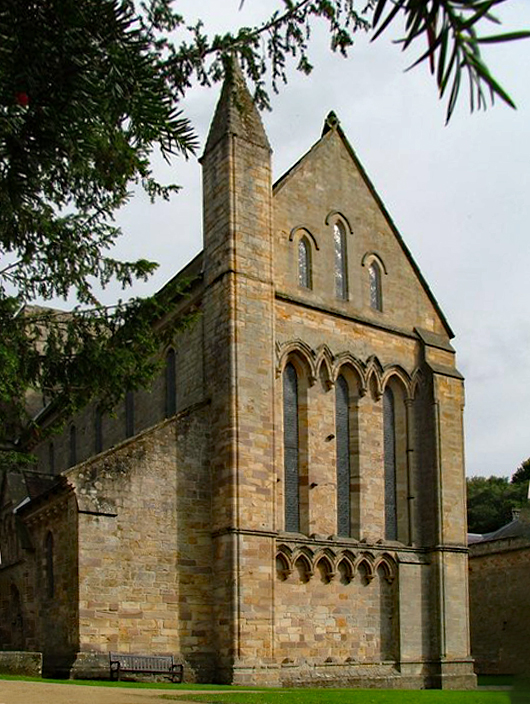 Stand Tall